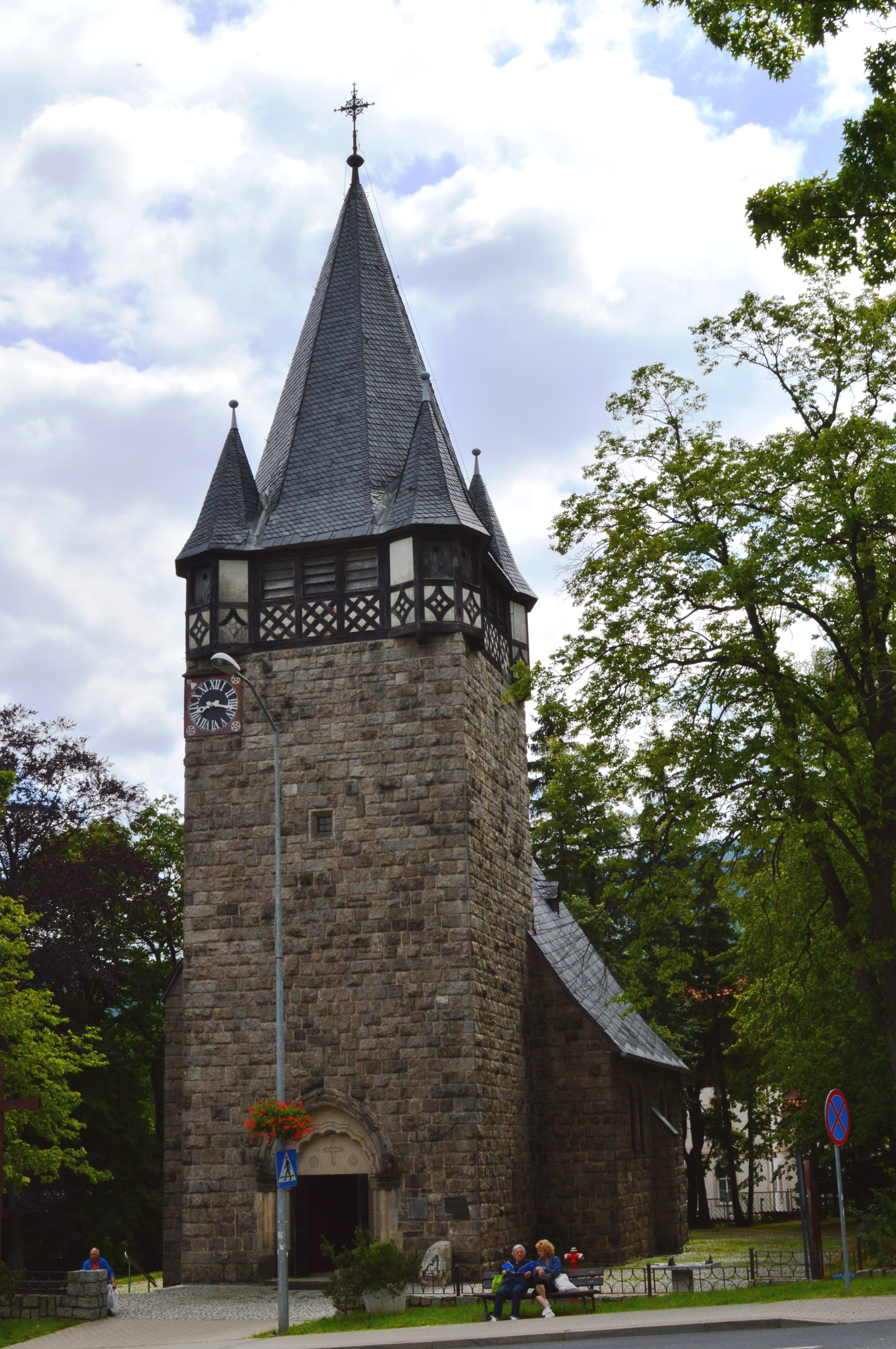 Karpacz is a spa town and ski resort in Jelenia Góra County, Lower Silesian Region, south-western Poland, and one of the most important centres for mountain hiking and skiing, including ski jumping. A famous ‘landmark’ in Karpasz is the Vang stave church, a four-post single-nave stave church, originally built around 1200, which was bought by the Prussian King and transferred from Vang in the Valdres region of Norway and re-erected in 1842 in Brückenberg near Krummhübel in Silesia, now Karpacz in the Karkonosze Mountains of Poland.The Scotch Mist Gallery contains many photographs of historic buildings, monuments and memorials of Poland.